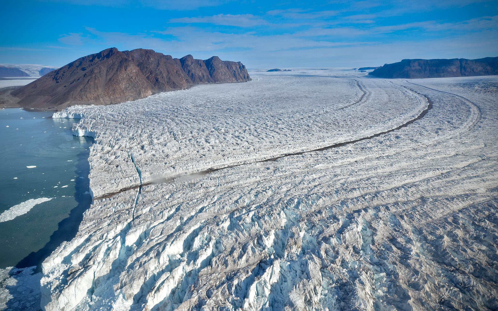 500px provided description: "Beyond that, an isolated mountain of striking boldness and sharpness of outline jutted into the air apparently some two thousand feet, and then, from its base, the crystal wall of a great glacier stretched clear across the opposite side of the bay head. This glacier I named, in honour of my Alma Mater, Bowdoin Glacier, and the bay I called Bowdoin Bay." Robert E. Peary, Northward over the Great Ice, p. 393--394. This photo was taken a few days before a major iceberg detached from the glacier front. [#water ,#mountain ,#ice ,#glacier ,#greenland ,#moraine ,#calving ,#crevasse ,#bowdoin ,#qaanaaq]